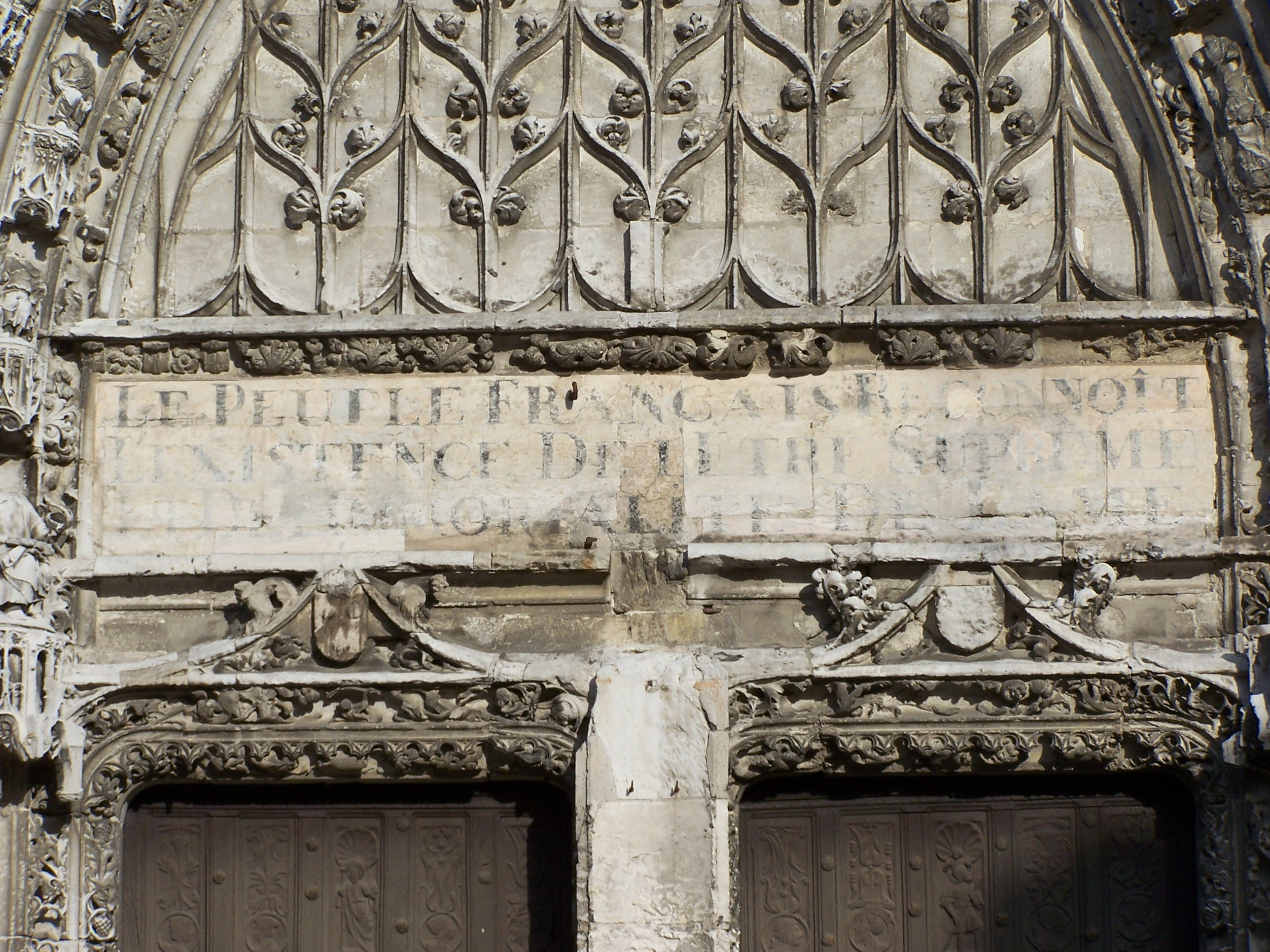 Frontispiece of the church of Houdan (Yvelines, France) - Text : The French people recognize the existence of the supreme Being and of the immortality of the soul